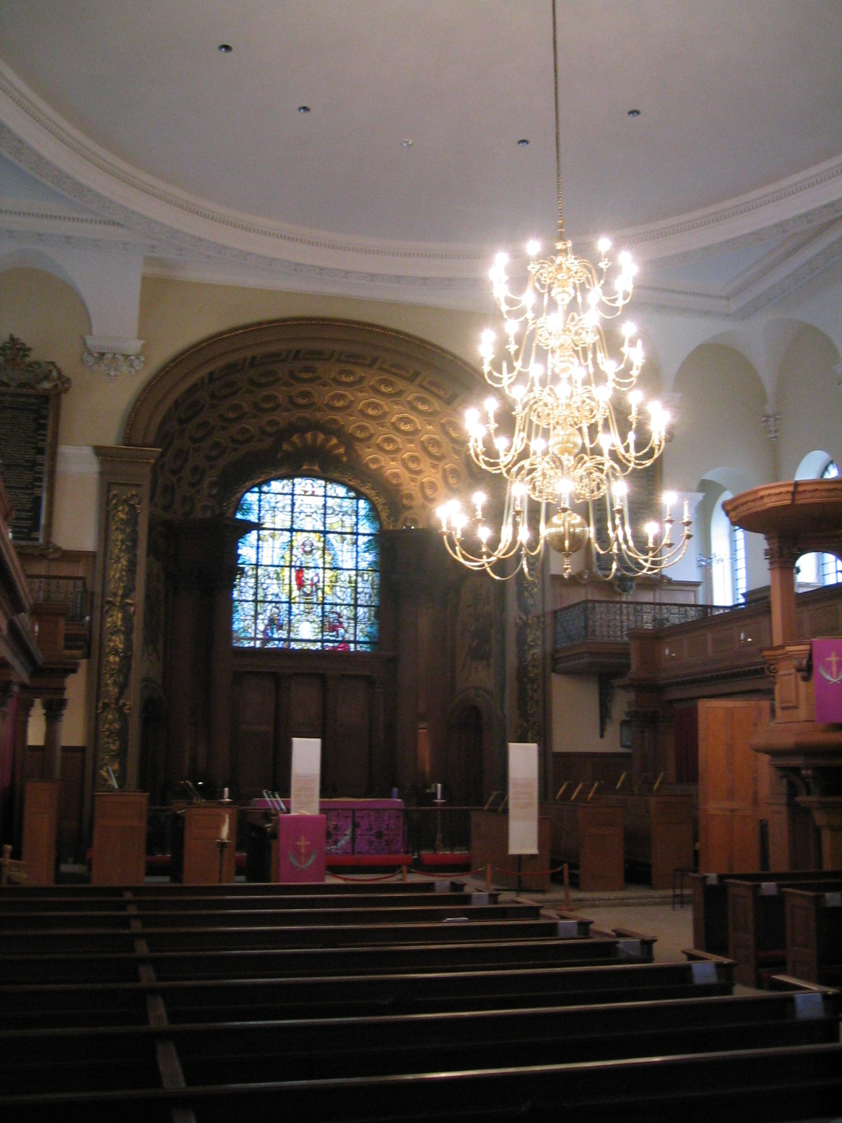 The interior of St Alfege's Church, Greenwich, London